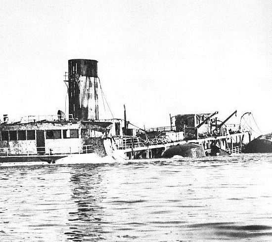 Shiun-maru Accidents